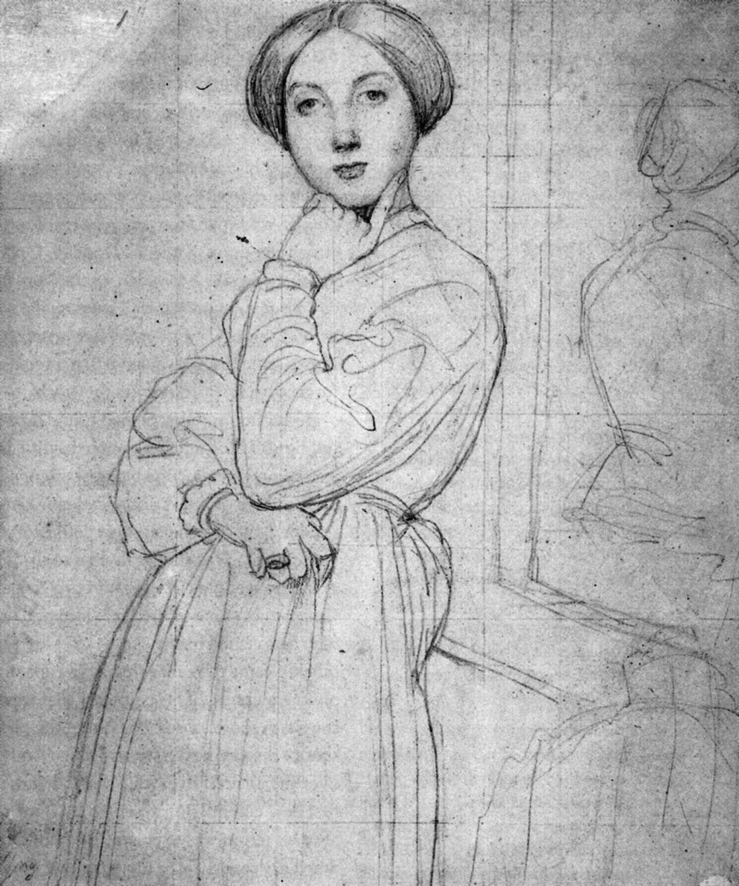 Vicomtess Othenin d'Haussonville, née Louise Albertine de Broglie, figure study